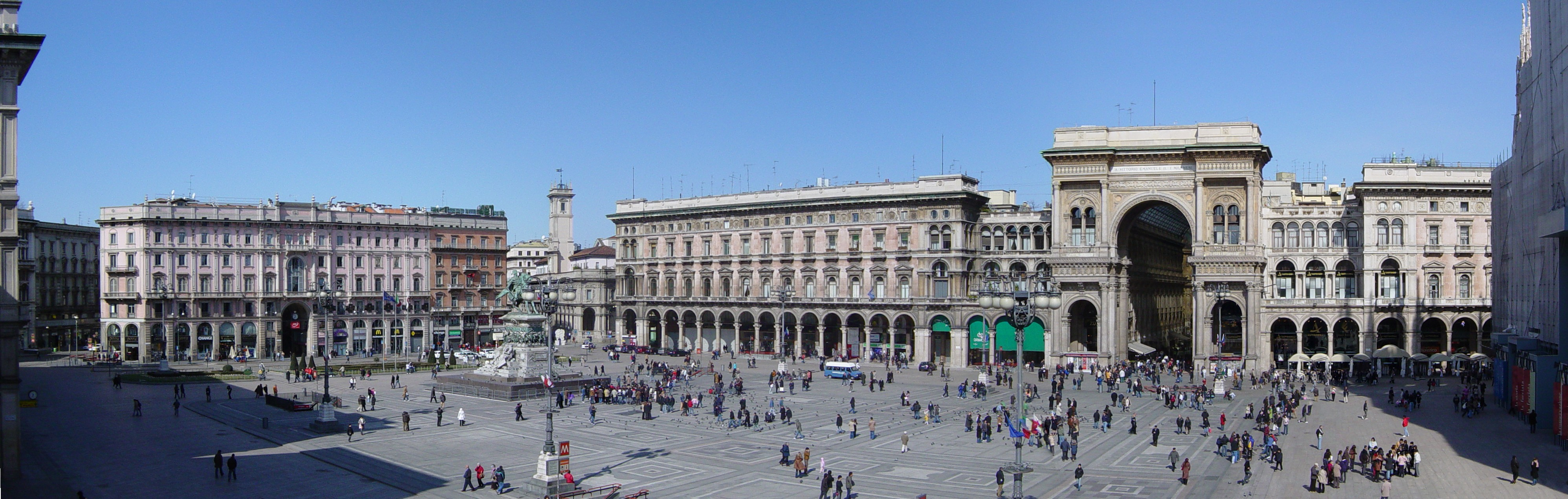 Panoramic view of Piazza Duomo (Milan). Sadly, the Duomo (to the right) was covered by a scaffolding.